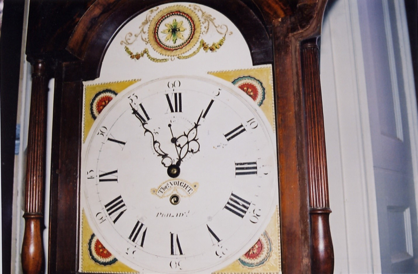 Close-up Photo of the Face of the Astronomical Case Clock containing its creator’s label “Thos Voight Philadelphia” (Photo furnished by the Thomas Jefferson Foundation with permission for use in this article)